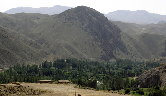 Picture of Iranian landscape in the north of Iran taken by Zereshk.